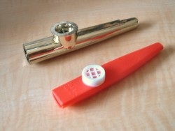 A photo I have taken of 2 kazoos for the Kazoo entry. Drhaggis 00:26, 18 May 2004 (UTC)